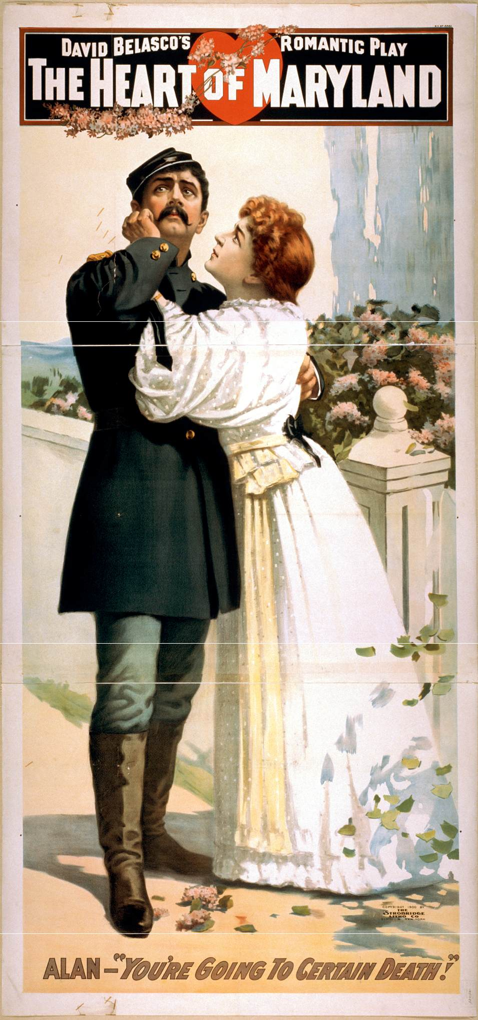 1900 poster for David Belasco's romantic play The Heart of Maryland.